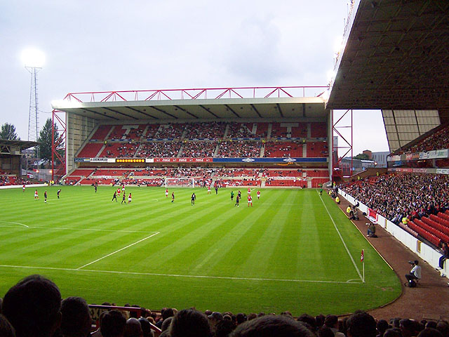 City Ground, Nottingham. Nottingham Forest's City Ground lies across the River Trent from Notts County's Meadow Lane and so, despite its name is outside the city boundary. In the glory days when Brian Clough managed the Reds, visiting his near neighbours was not a problem as it was said he could walk on water. His inspirational management skills would have been invaluable in this pre season friendly against Middlesbrough but defeat for Forest in this match set the trend for the following season and they were relegated at the end of the 2004/5 season.